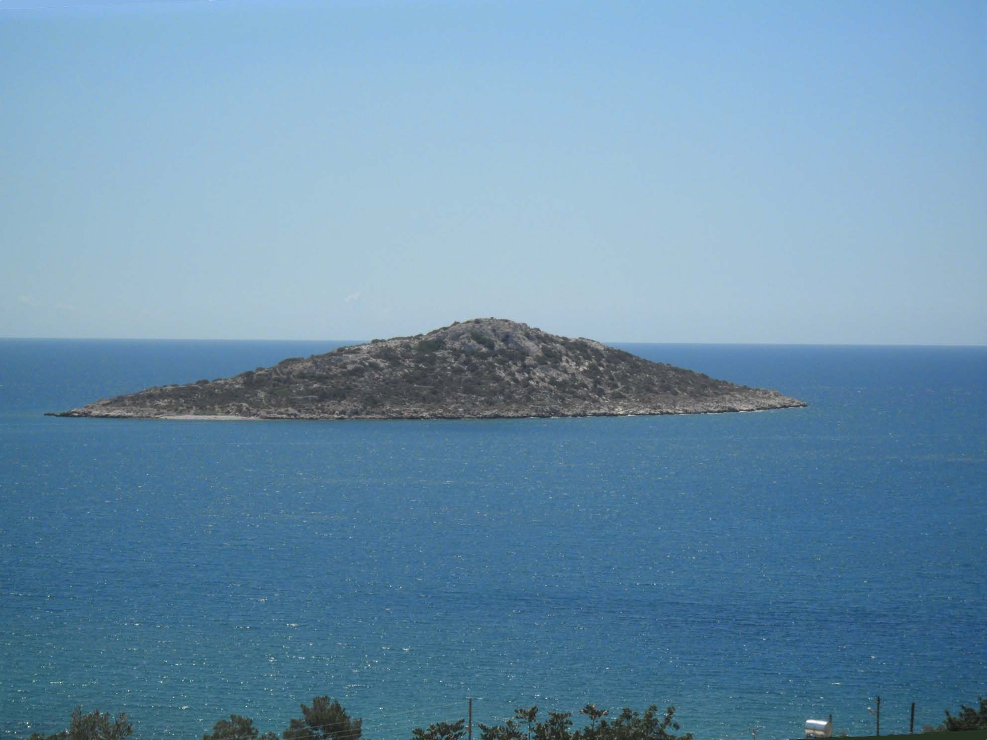 Boğsak İslet in Silifke District of Mersin Province, Turkey